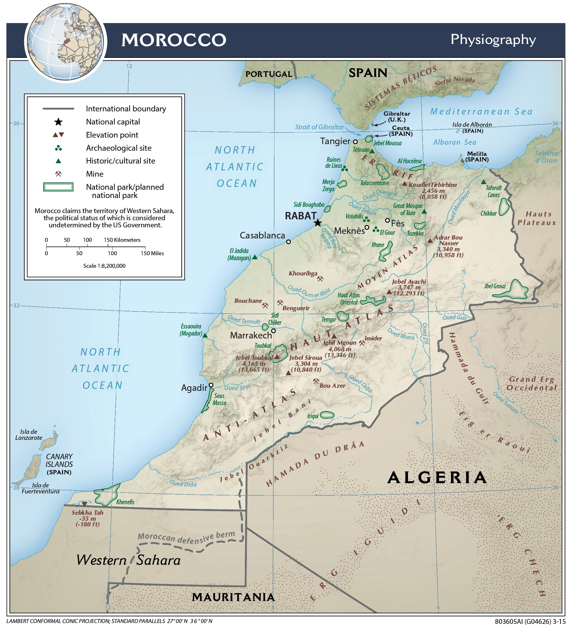 Topographic map of Morocco (shaded relief), 2015.